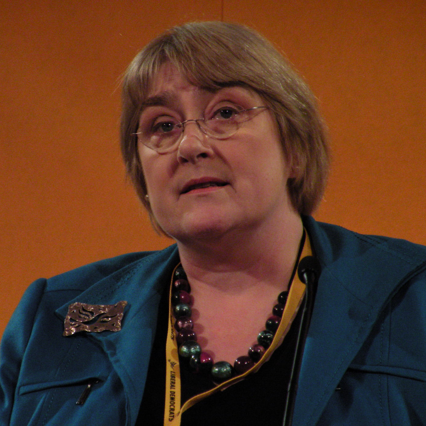 Sal Brinton, Baroness Brinton speaking at a Liberal Democrat conference in the Hilton Brighton Metropole.